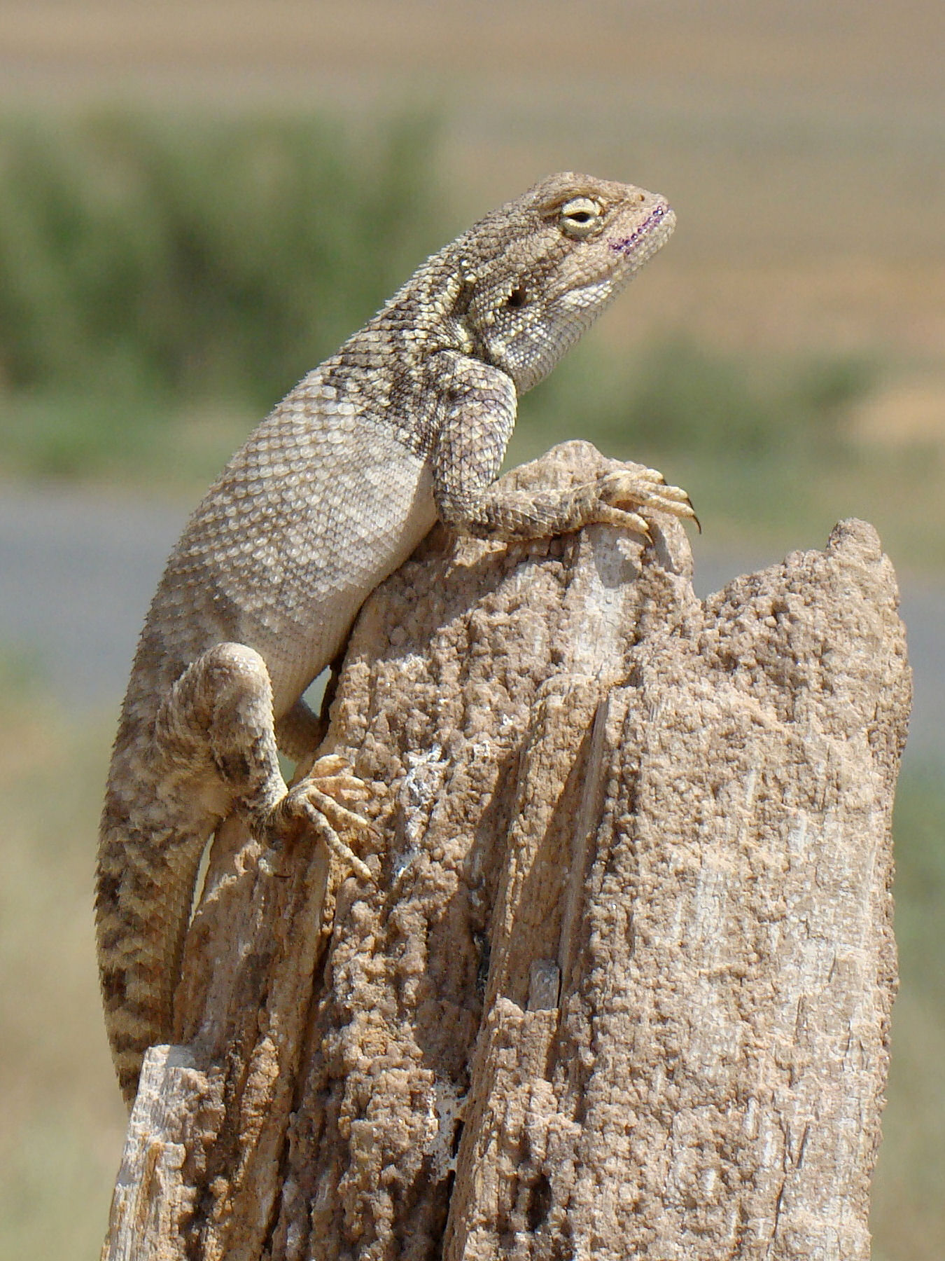 Trapelus sanguinolentus[1] on a piece of a petrified wood